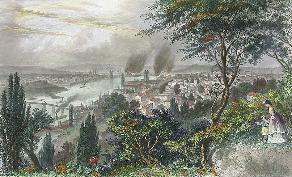 City of Cincinnati, a steel engraving from a study by A. C. Warren, engraved by W. Wellstood and published in Picturesque America, D. Appleton & Company, New York, New York 1872.